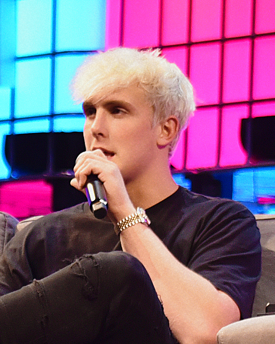 cropped Jake Paul from original photo